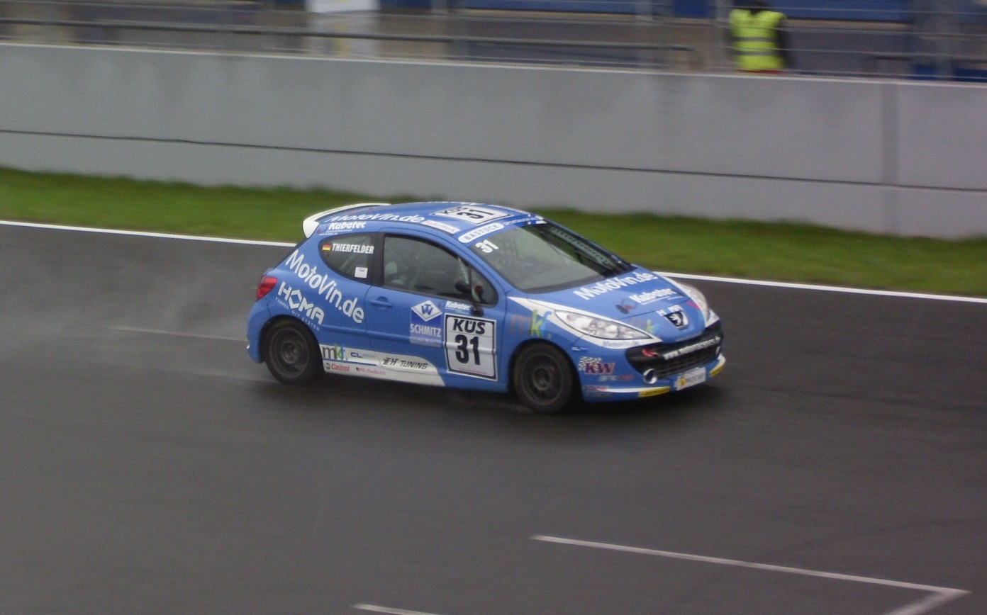 Championship: ADAC Procar; Racetrack: Motorsportarena Oschersleben; Driver: Guido Thierfelder (Germany); Team: ETH Tuning; Car: Peugeot 207 Sport; Point: Saturday morning, second free practise